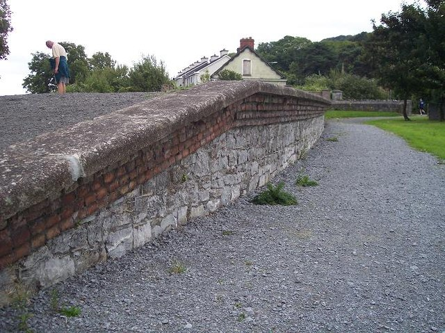 former Rochestown station, Cork. From Blackrock the trail following the Cork, Blackrock & Passage Railway turns south east and, after a further two miles, bridges the Douglas River to reach the remains of Rochestown station on the south shore of Lough Mahon.